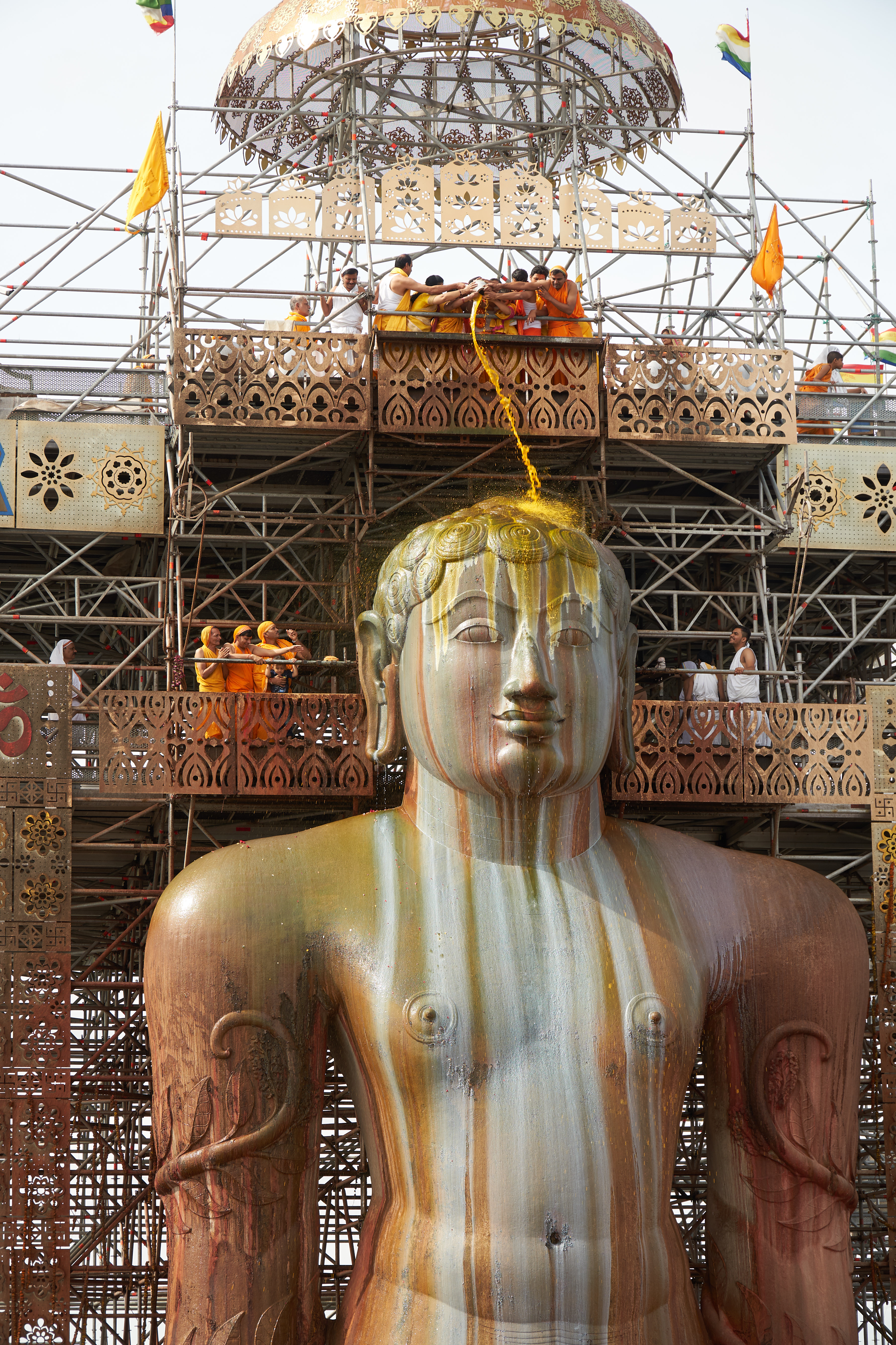 Mahamastakabhisheka in August, 2018 in Shravanbelagola